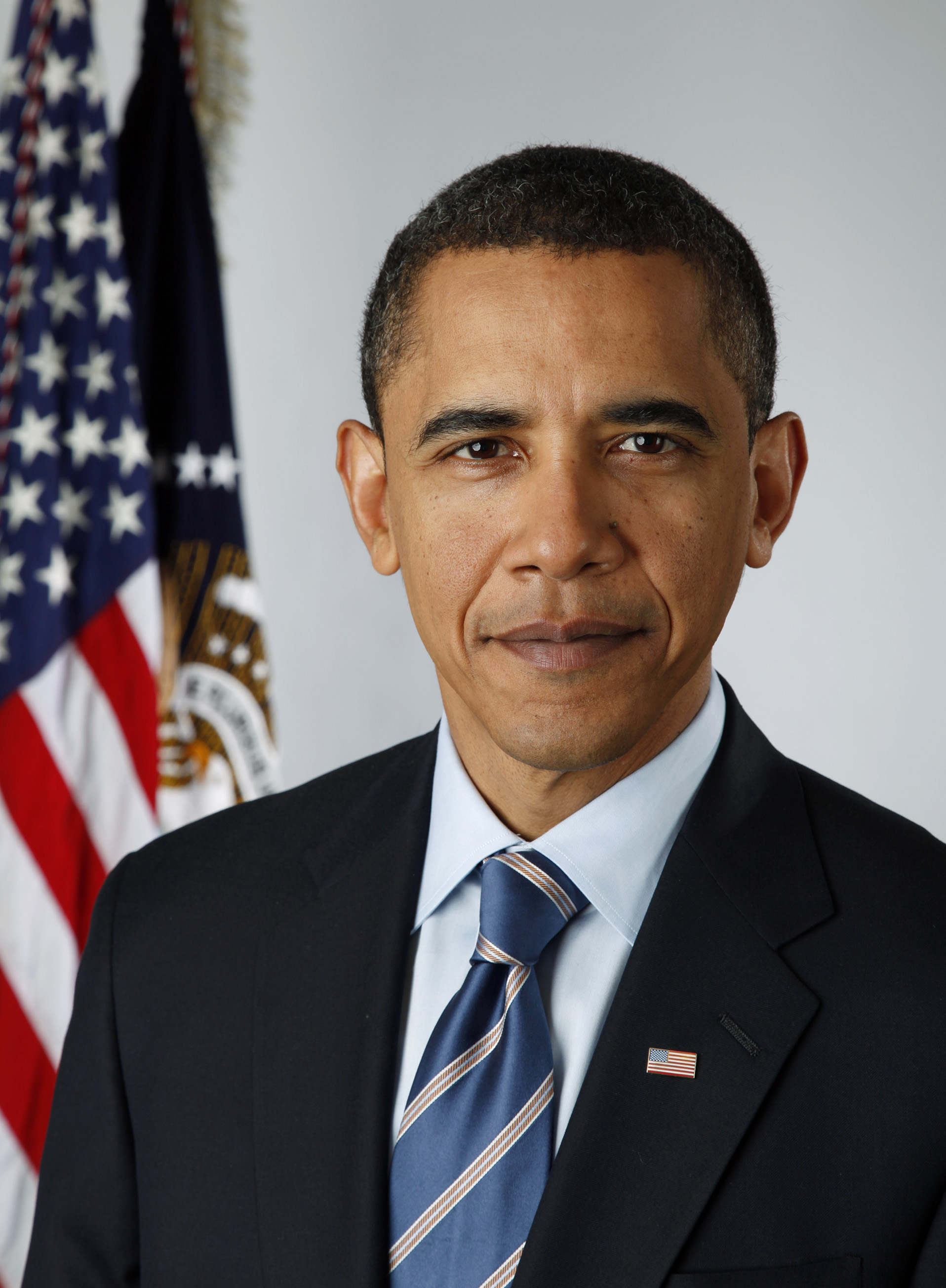 Official photographic portrait of US President Barack Obama (born 4 August 1961; assumed office 20 January 2009)